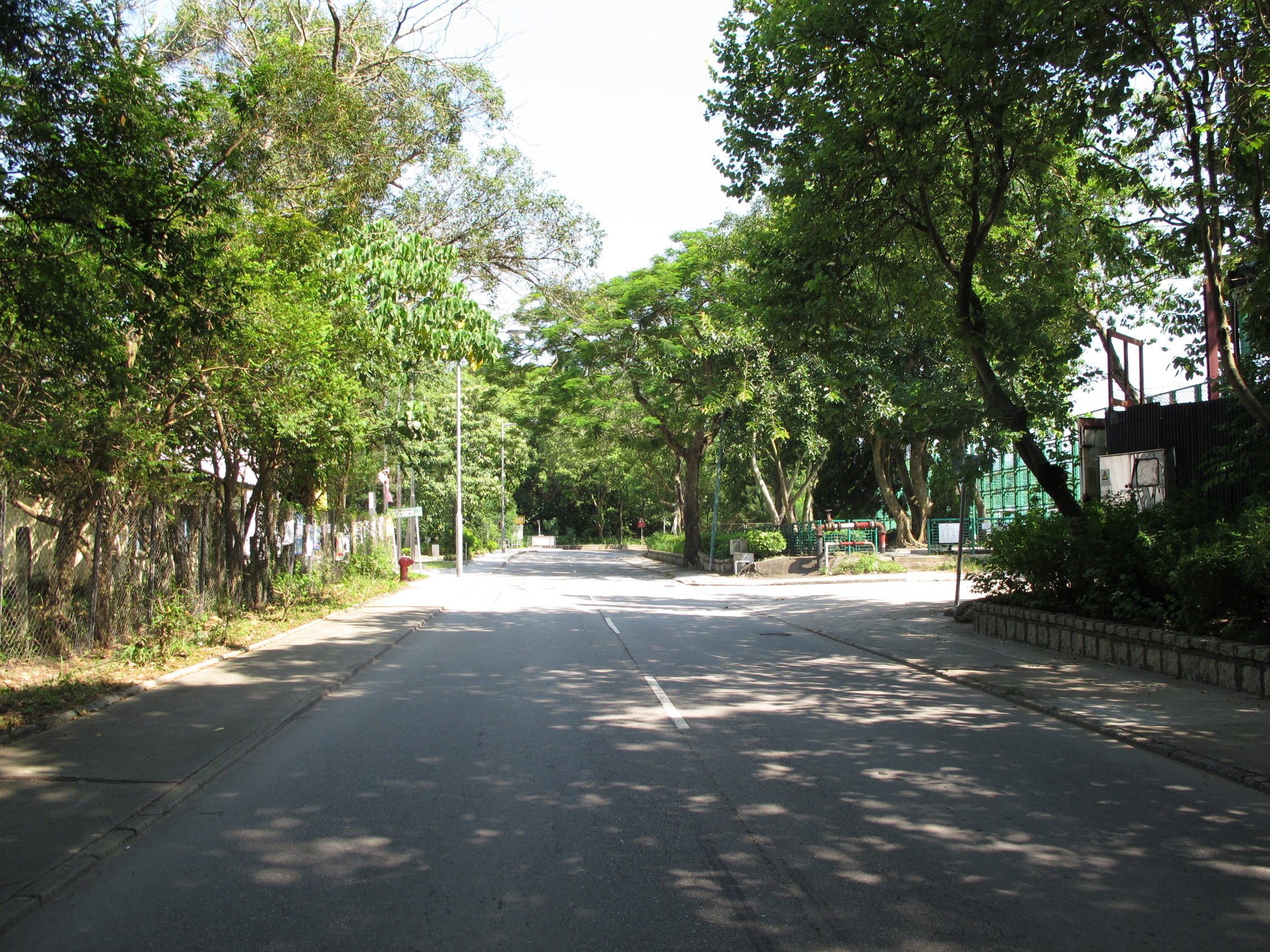 Ping Che Road